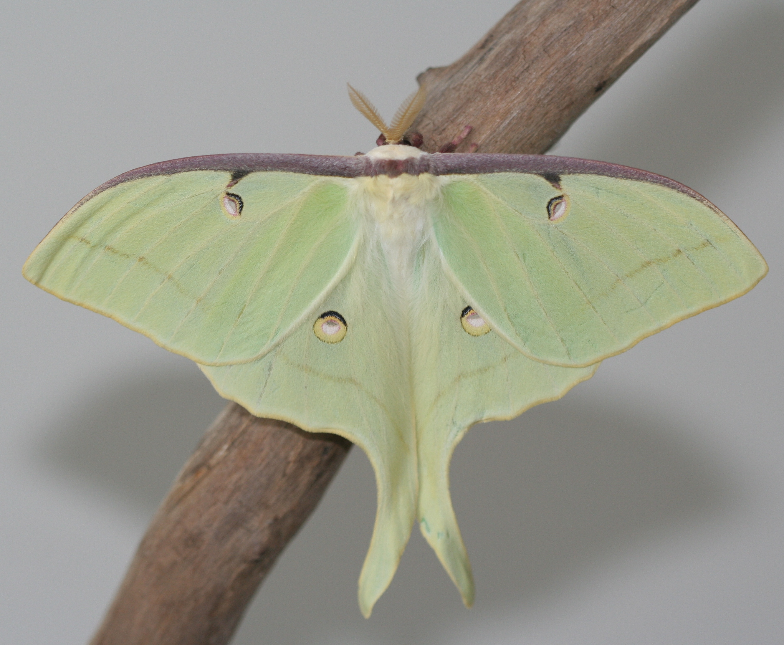 Male Luna Moth (Actias luna)